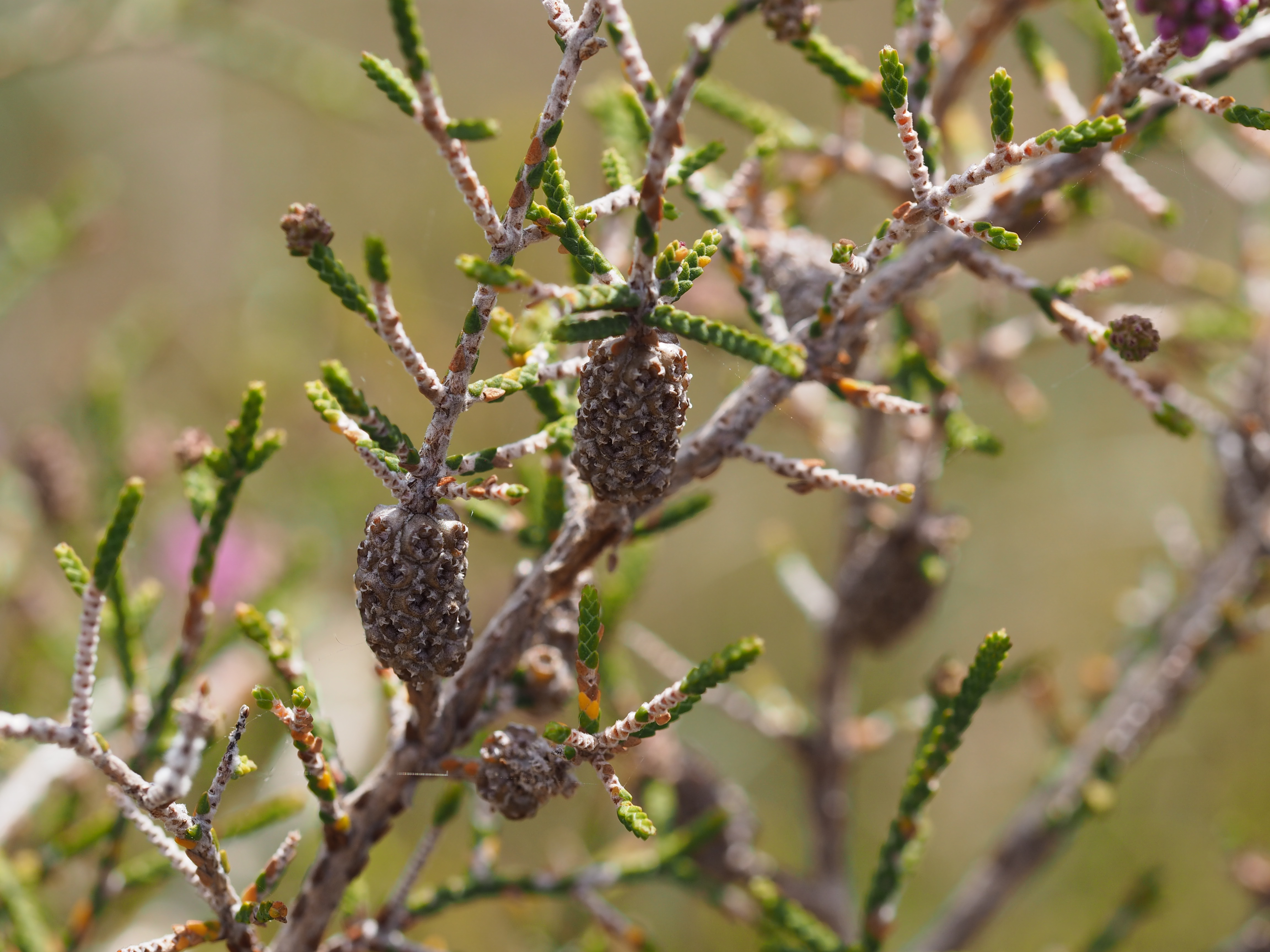 Beaufortia micrantha growing near Hopetoun